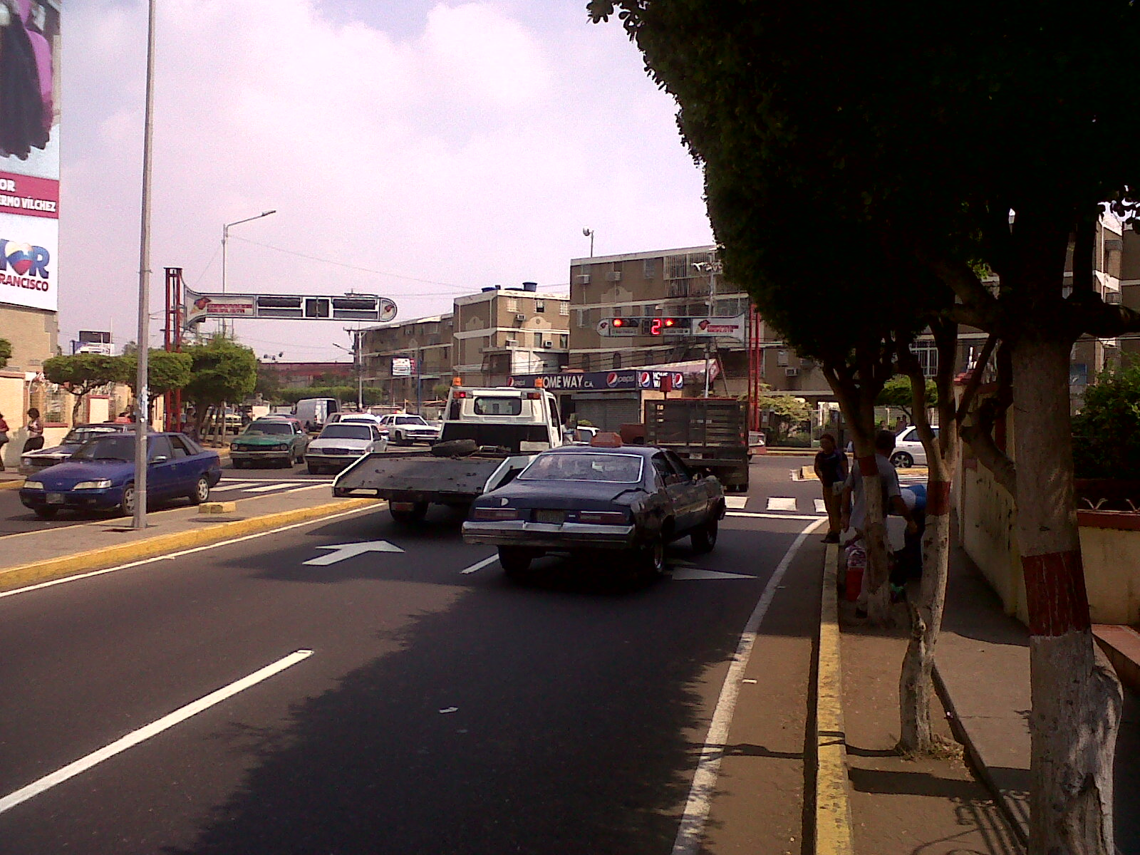 avenue